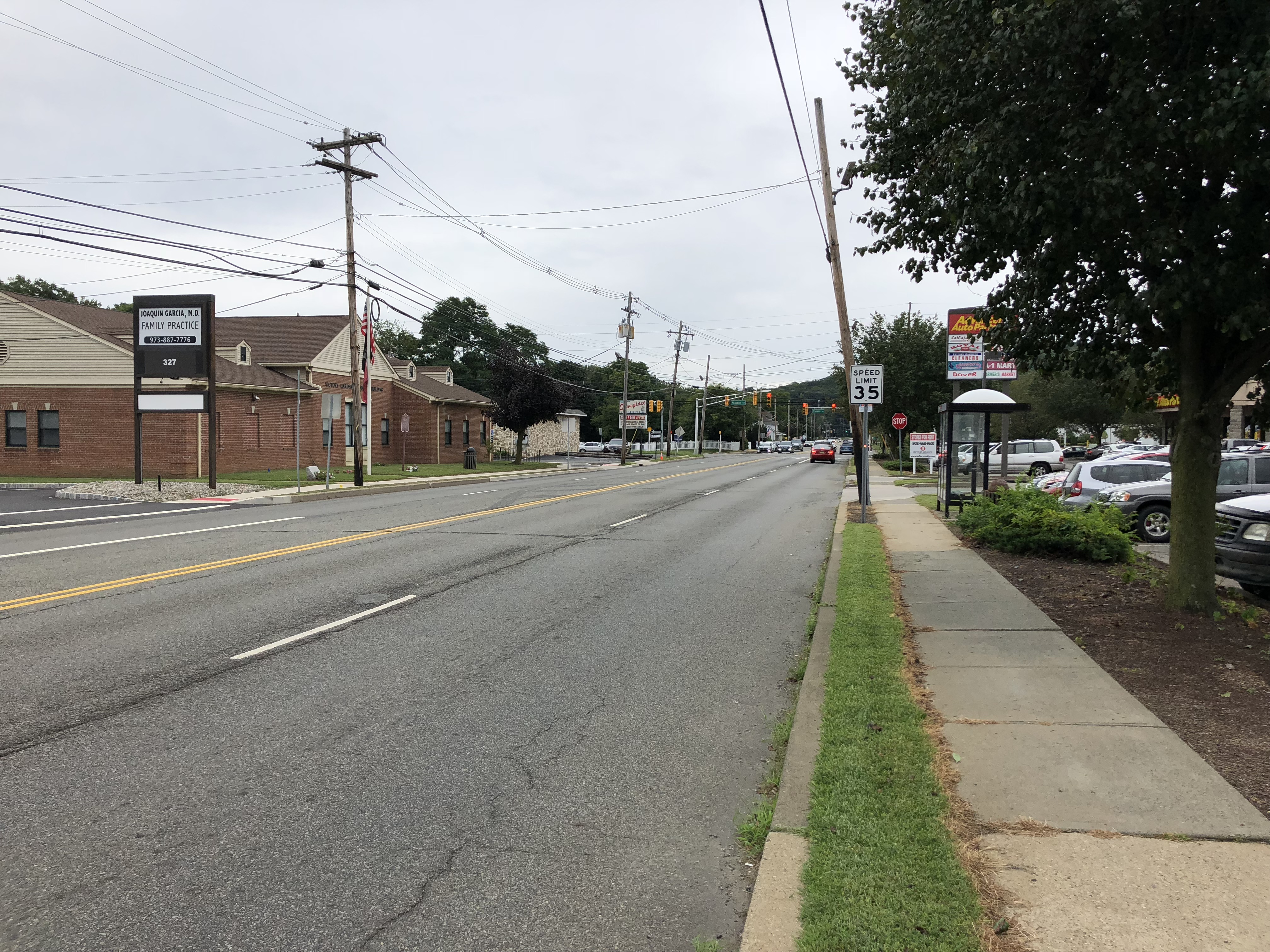 View south along Morris County Route 665 (South Salem Street) at Washington Avenue in Victory Gardens, Morris County, New Jersey